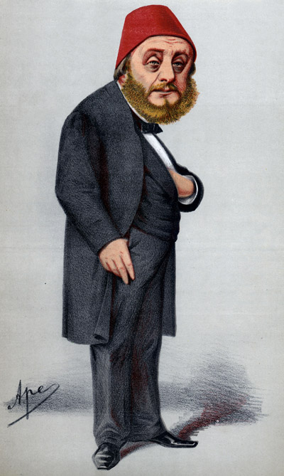 Vanity Fair cover, Feb. 4, 1871 of "The most interesting of all the diplomatic corps in London"... "His excellency Constantine Musurus, commonly called Musurus Pasha, the Turkish Ambassador, is of Greek extraction, and was born in 1807. His diplomatic career, so far as it belongs to the general history of Europe, dates from 1848, when he represented the Sultan at Vienna, having previously distinguished himself as Governor of Samos and Minister at Athens. In 1851 he came to London invested with full powers as Envoy Extraordinary of the Port."